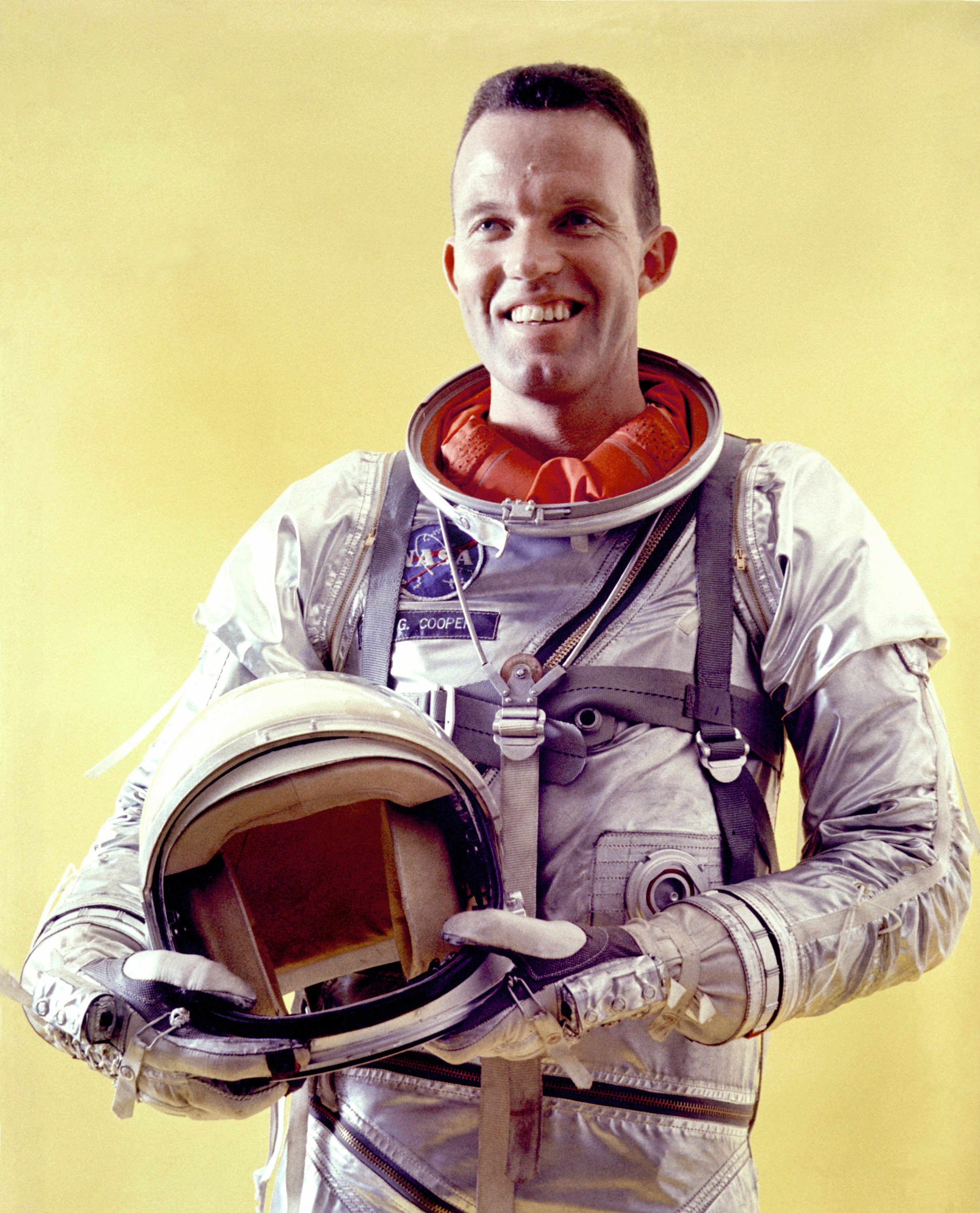 Cleaned up.